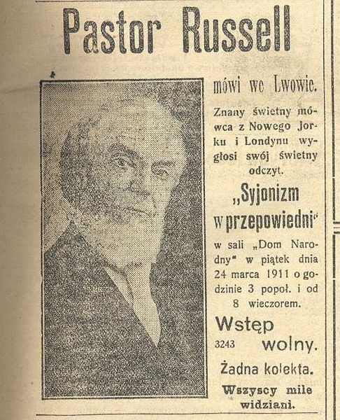 Charles Taze Russell in Lwow, 1911-24-03